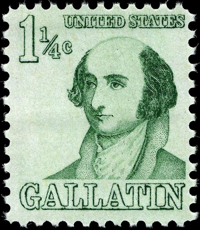 U.S. stamp honoring Albert Gallatin. Michel 915 dunkelgelbgrün